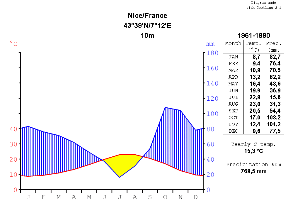 climate chart of Nice, France, for the period of time from 1961 to 1990, in the format by Walter and Lieth, metric, °Celsius and millimeters, chart made with Geoklima 2.1, label in English